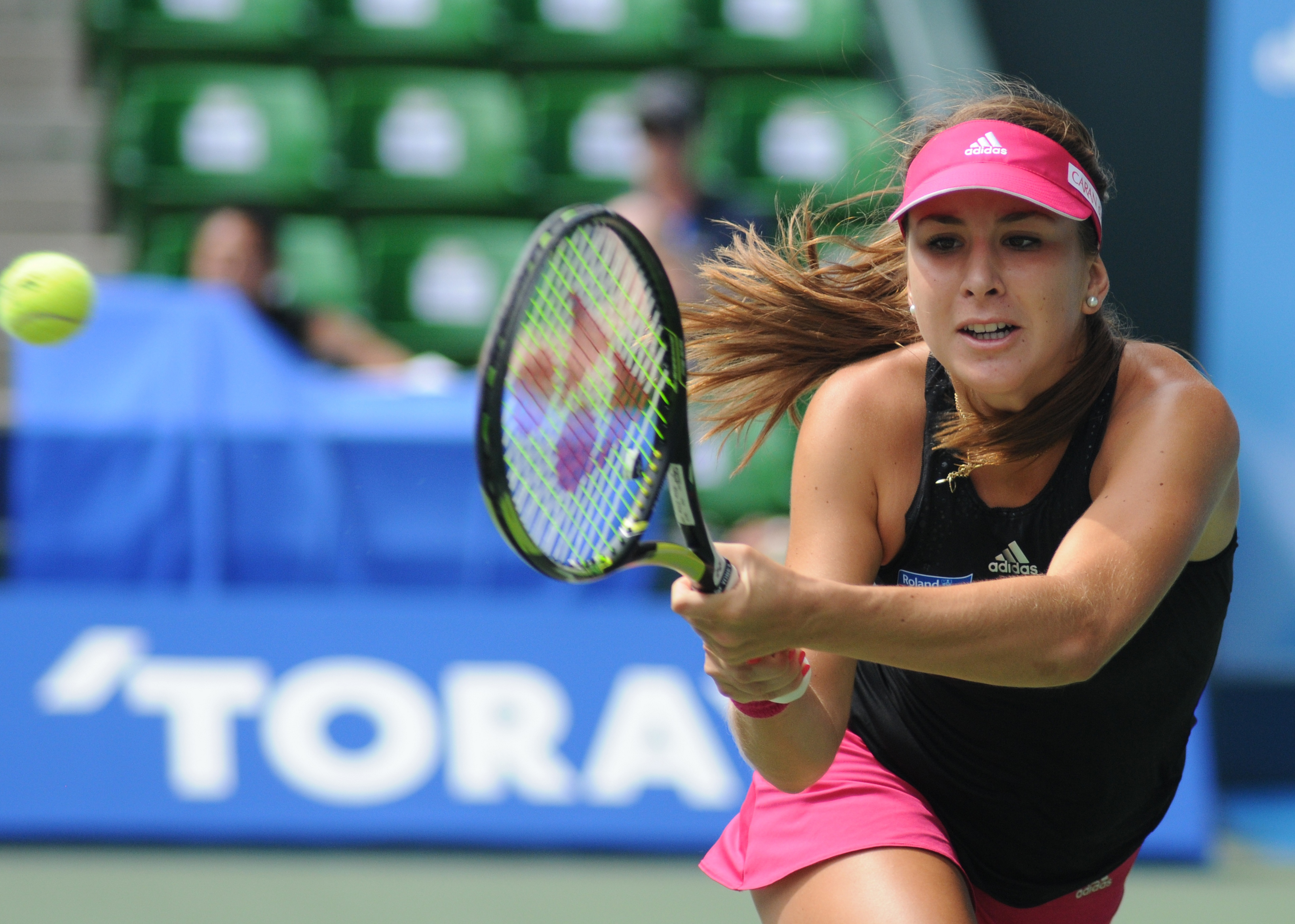 Belinda Bencic at the 2014 Toray Pan Pacific Open